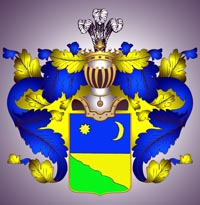 Coat of Arms of Avdeevy family